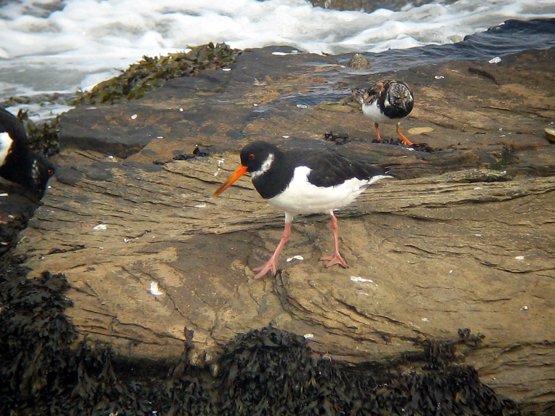 Haematopus ostralegus (juvenile); Arenaria interpres behind - photo MPF St Mary's island, Northumberland, UK; 31 August 2005